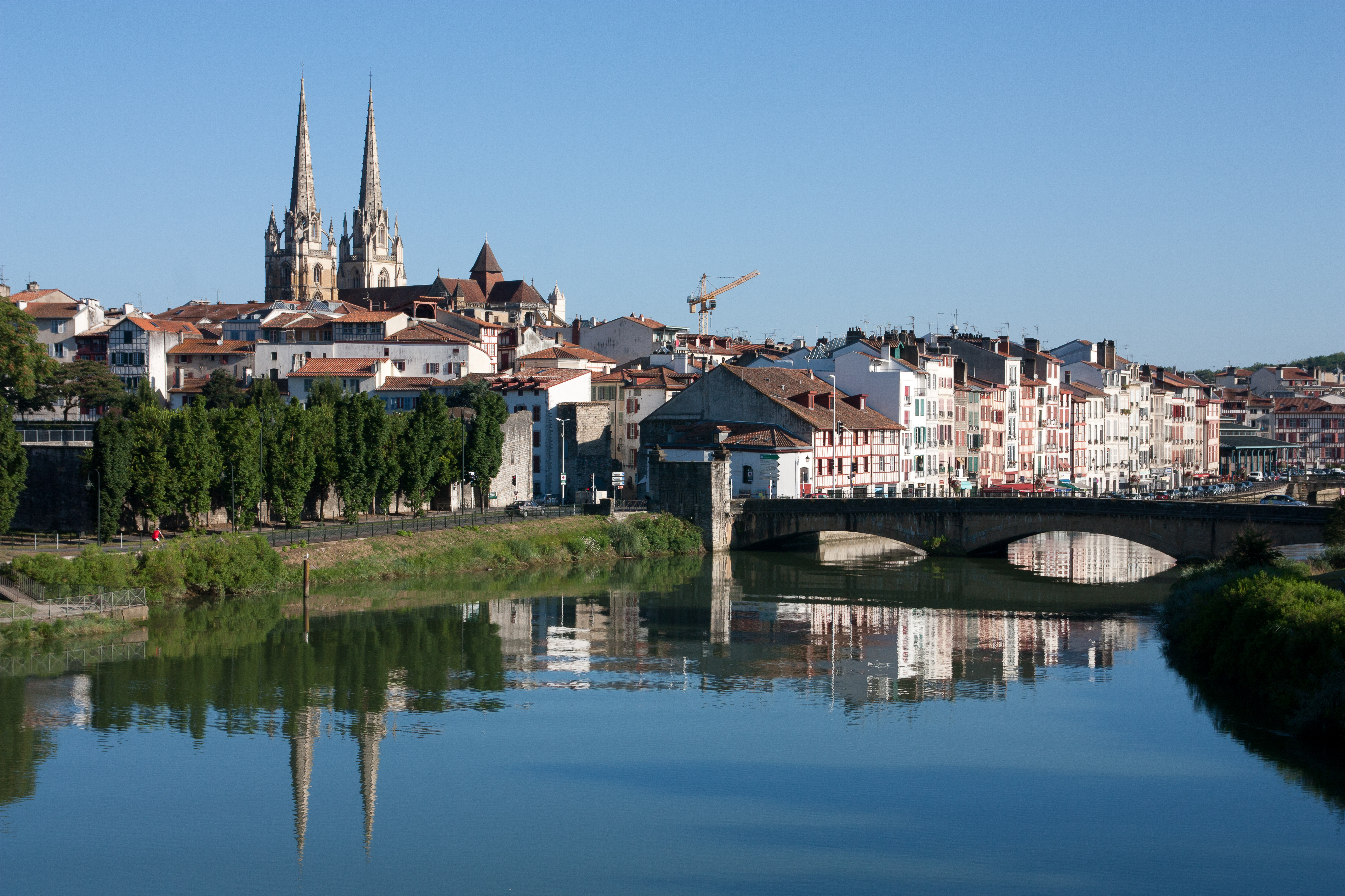 Historic center of the town of Bayonne, seen from the club house of the Aviron Bayonnais.